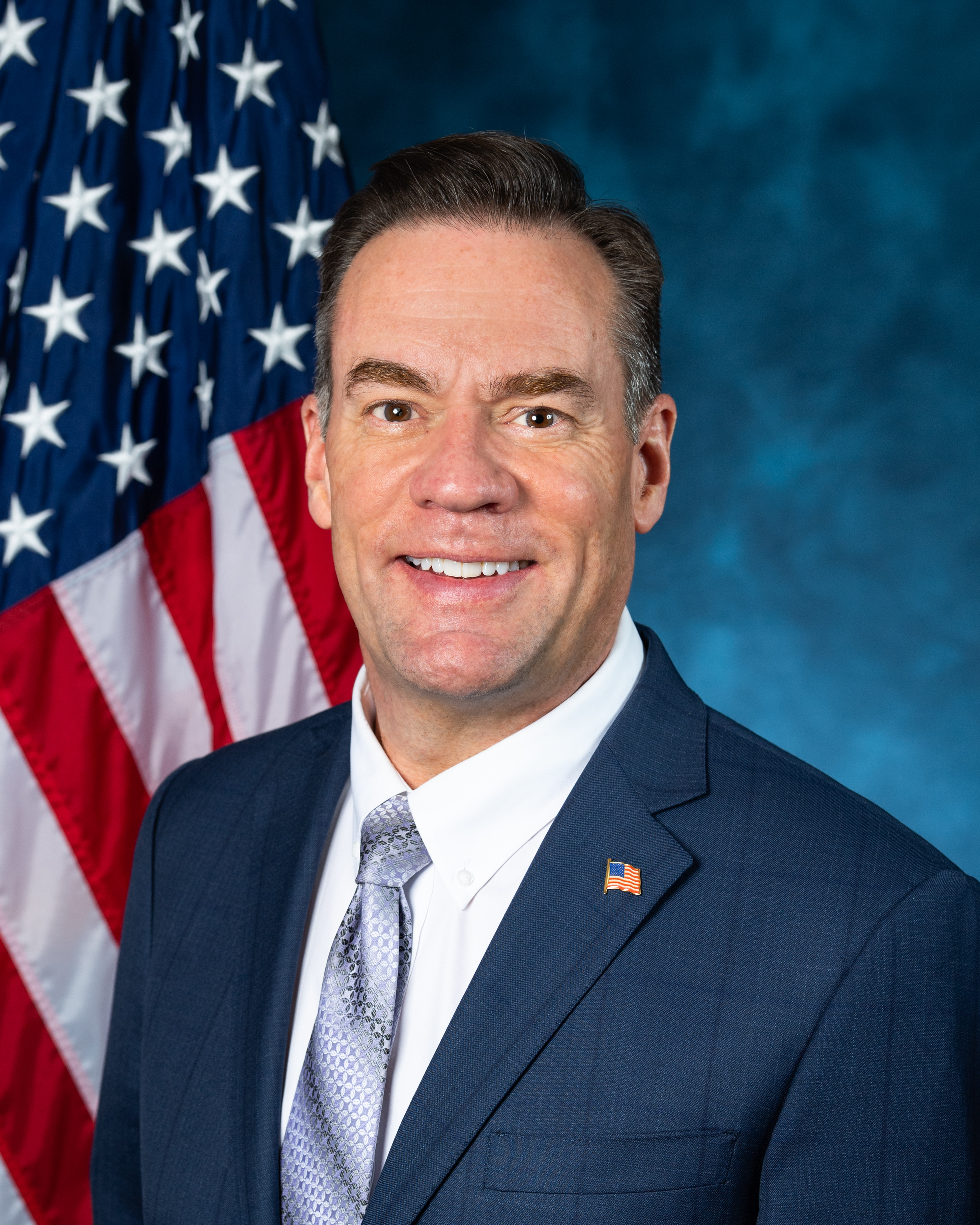 The official headshot of Rep. Russ Fulcher (R-ID)